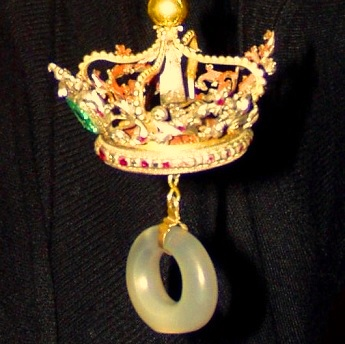 The Santo Anello - Holy Ring in Perugia Cathedral